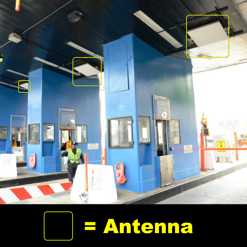 E-ZPass antenna location